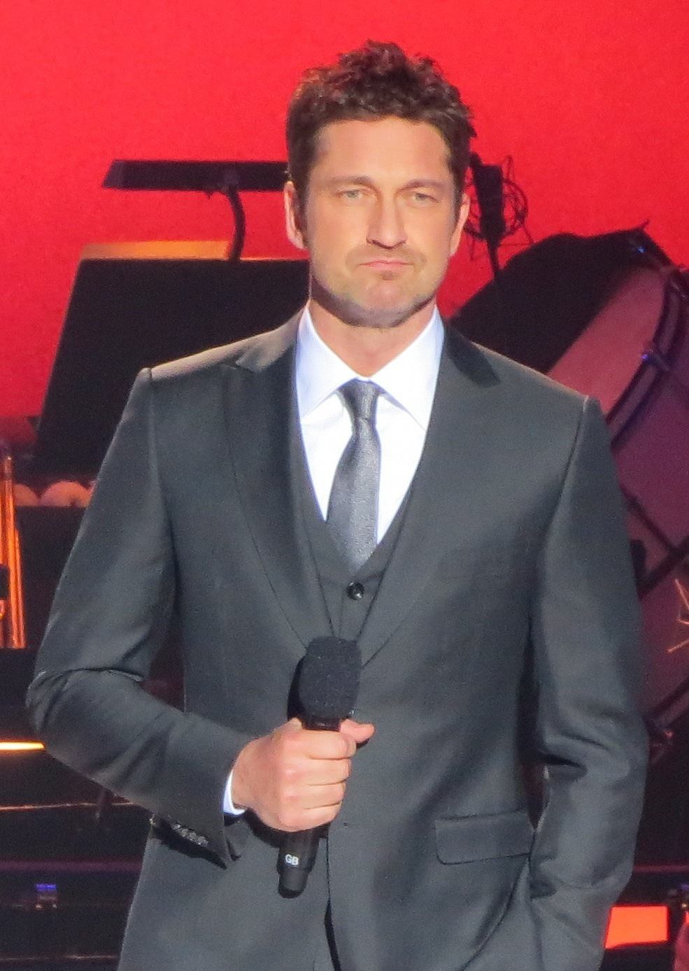 Photo from the 2012 Nobel Peace Prize Concert in Oslo Spektrum arena, Oslo, Norway. Hosts of the evening were Sarah Jessica Parker and Gerard Butler.